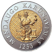 200 litas coin issued to celebrate the 750th anniversary of the crowning of Mindaugas Gold (Au 900), silver (Ag 925) Quality proof Diameter 27 mm Weight 15 g (core 7.9 g) The words on the edge of the coin: LIETUVOS KARALYSTĖ 1253 (KINGDOM OF LITHUANIA 1253) The designer of the coin is Petras Repsys Mintage 2,000 pcs Issued 2003 The coin was minted at the state enterprise Lithuanian Mint.